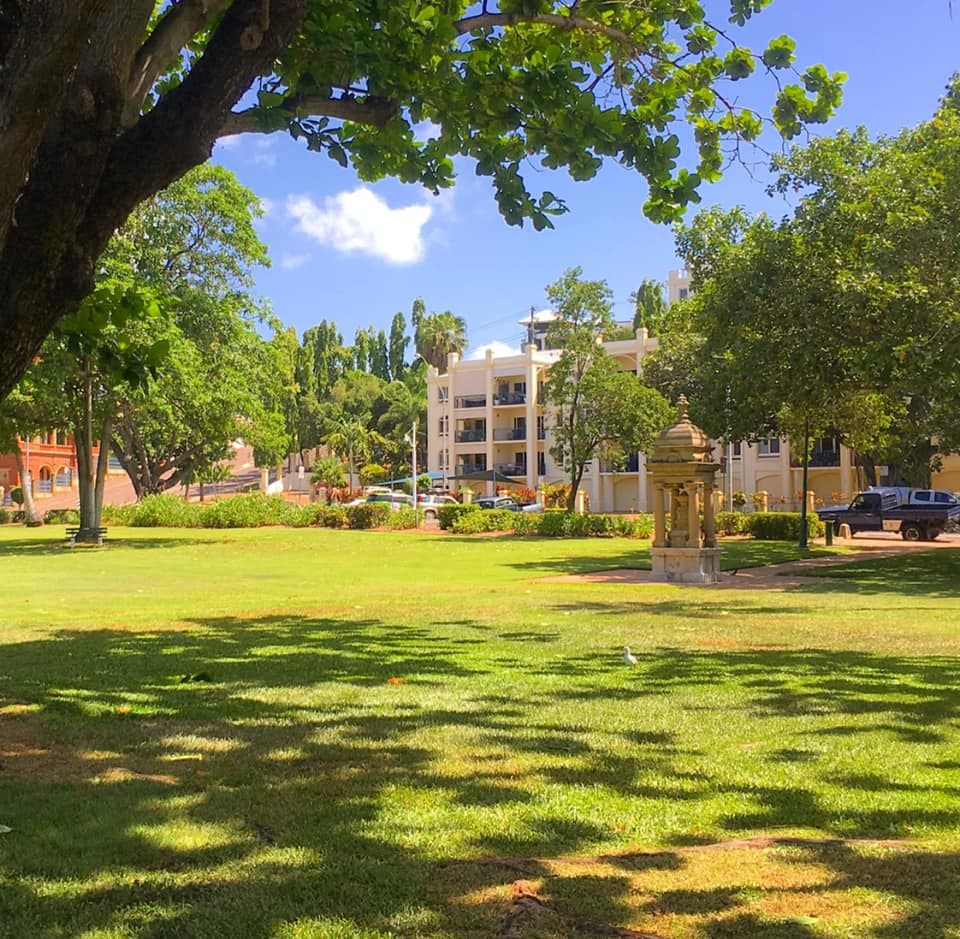 A partial view of the Anzac Memorial Park in Townsville with the W J Castling Memorial on the right which dates to 1908.